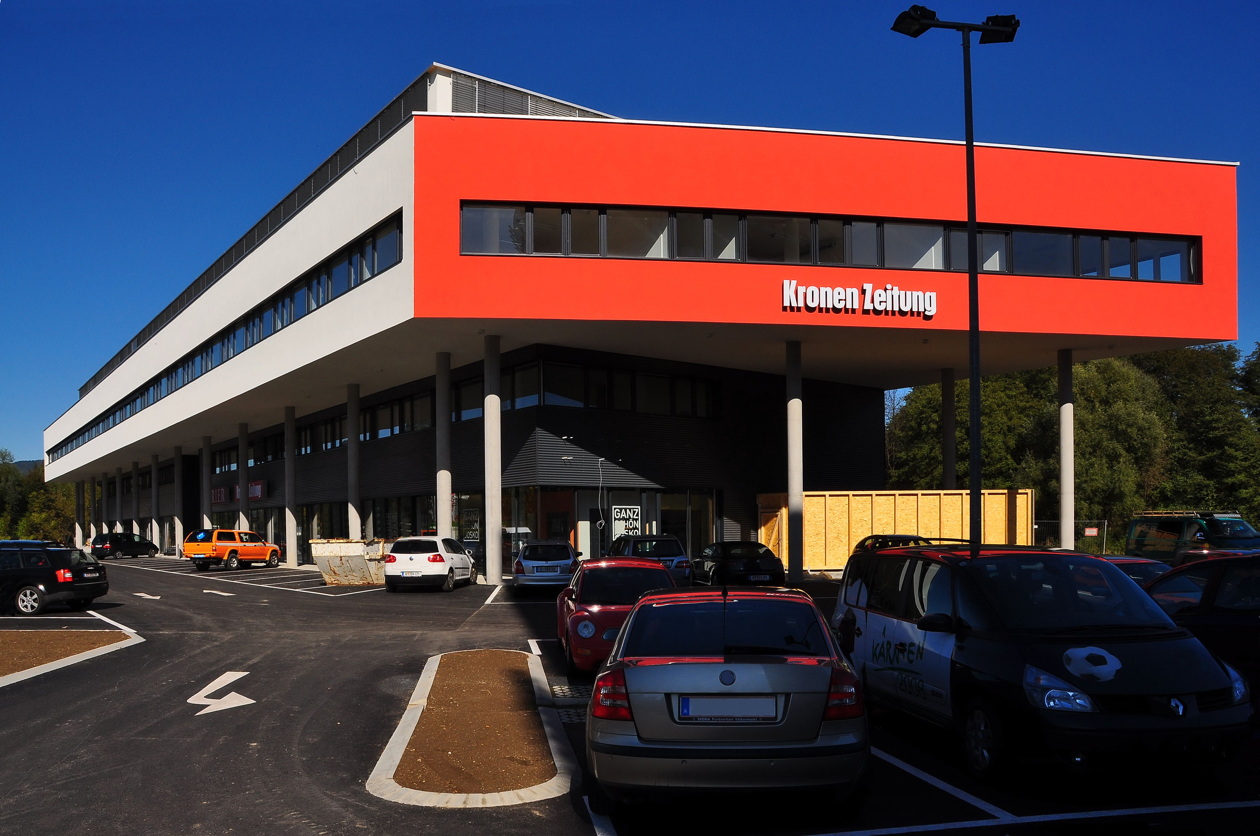 Media print center with the editorial office of the "Kronen Zeitung", built in 2008 at the businesss park, Feldkirchner Strasse, situated in the 9th district “Annabichl” of the Carinthian capital Klagenfurt on the Lake Woerth, Carinthia, Austria